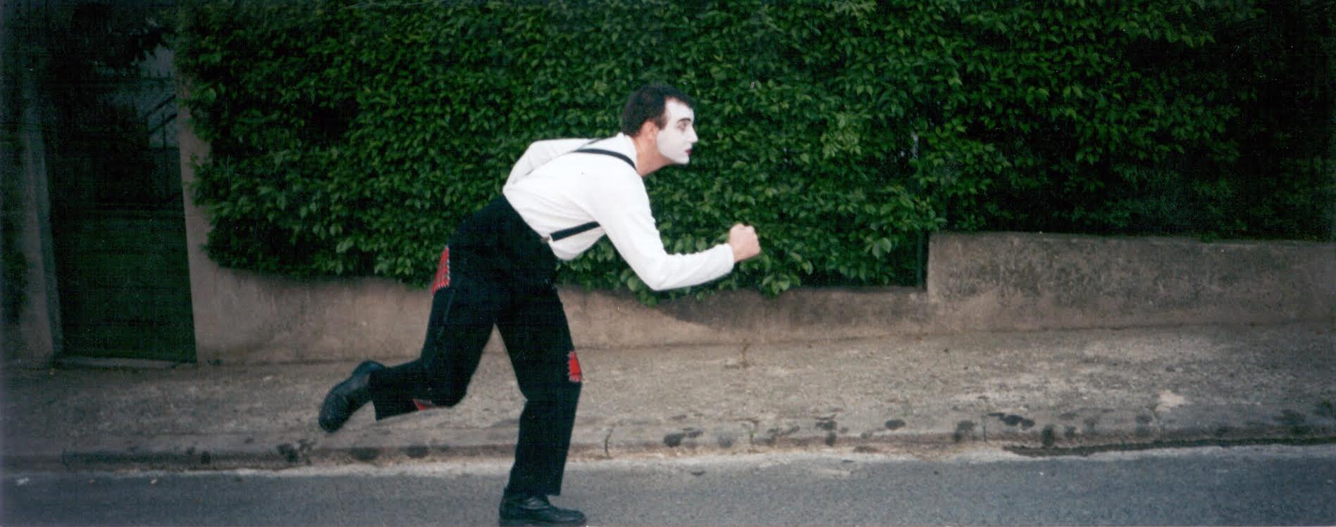 Mime Running - Marko Stojanovic